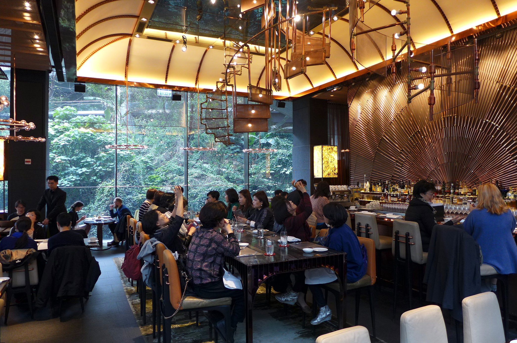 Asia Society AMMO